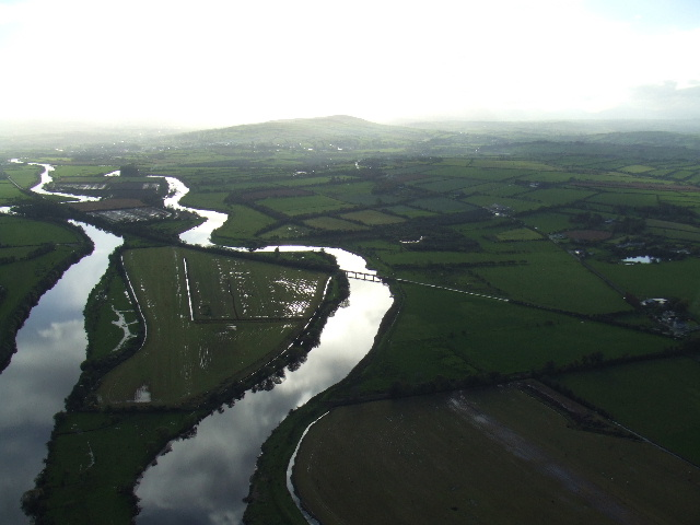 North End of Corkan Island Corkan Island- North end of the Island near Porthall. The bridge once carried the Great Northern Railway line onto the Island. Similarly there was another bridge at the other end of the island to carry the railway over the river into Strabane. The bridge between Corkan/Strabane has now been removed.